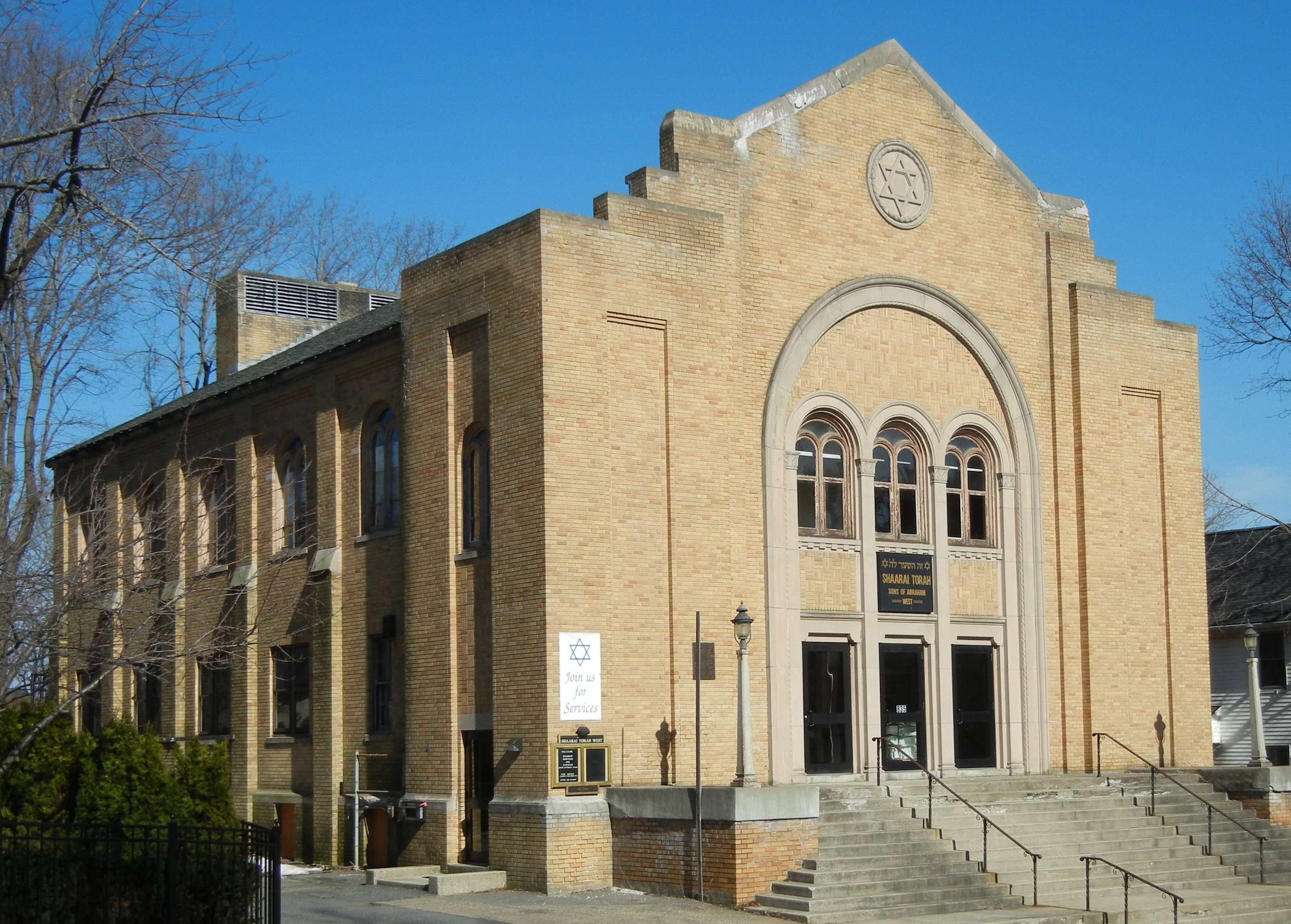 Sharaai Torah West Synagogue in Worcester, Massachusetts